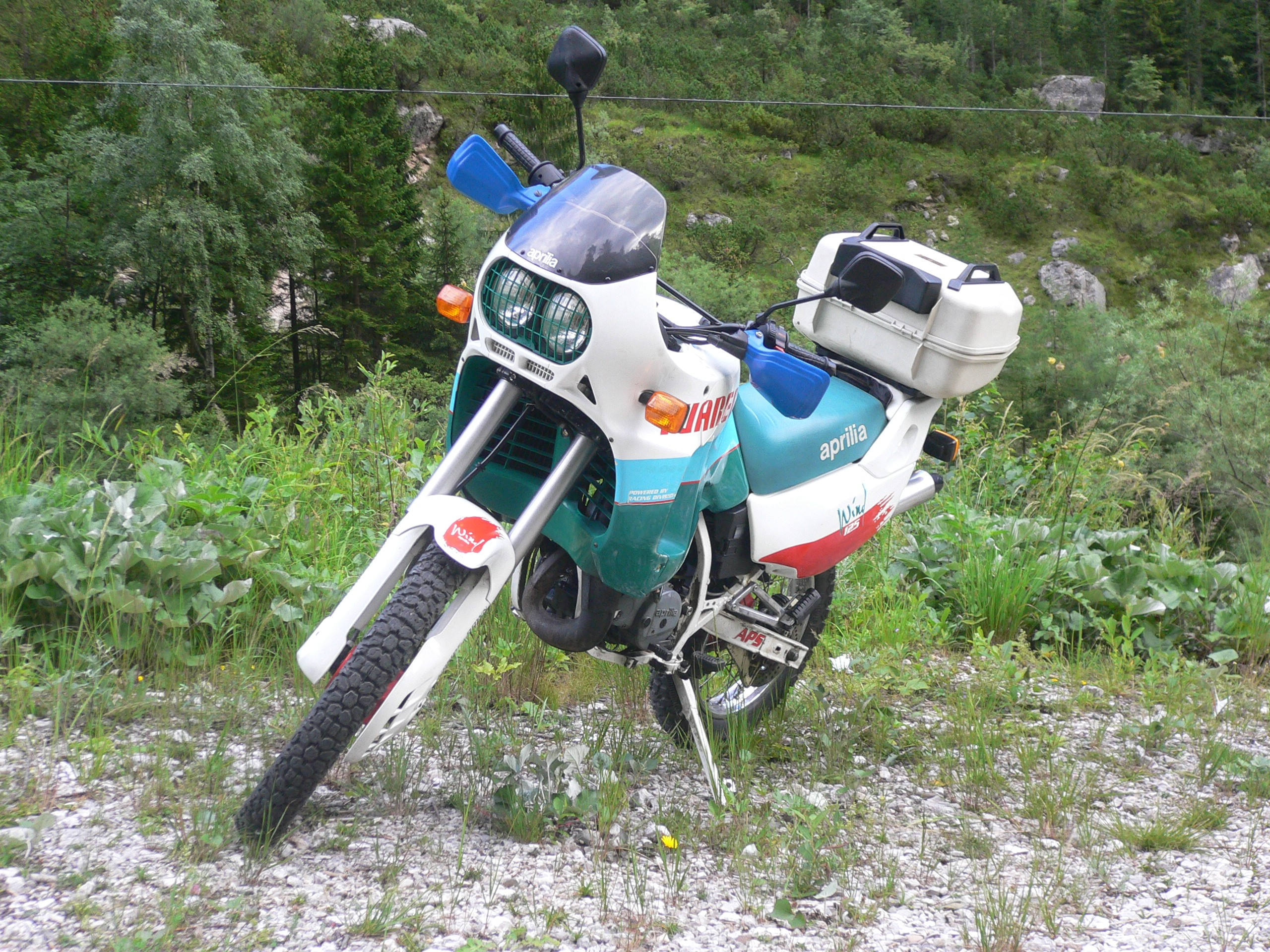 Aprilia Tuareg Wind 125